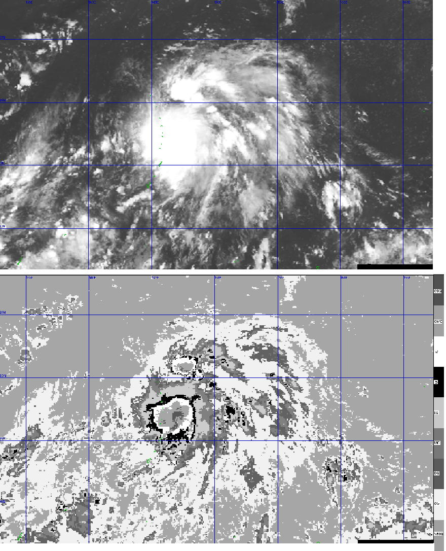 Satellite Infra-Red image (Up) and Dvorak enhanced images (Down)